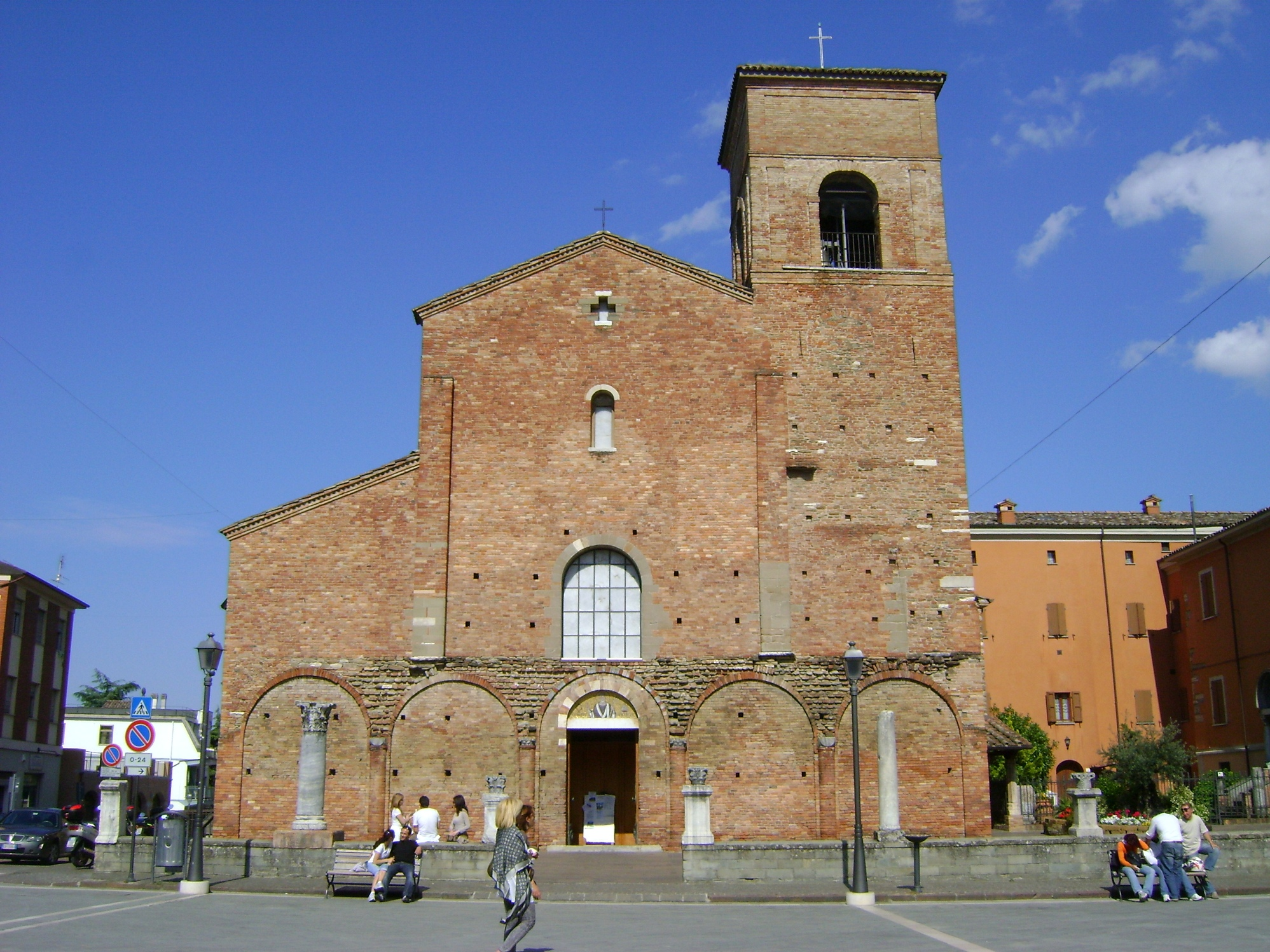 The Basilica of St. Vicinio in Sarsina, in the province of Forlì-Cesena, Emilia-Romagna